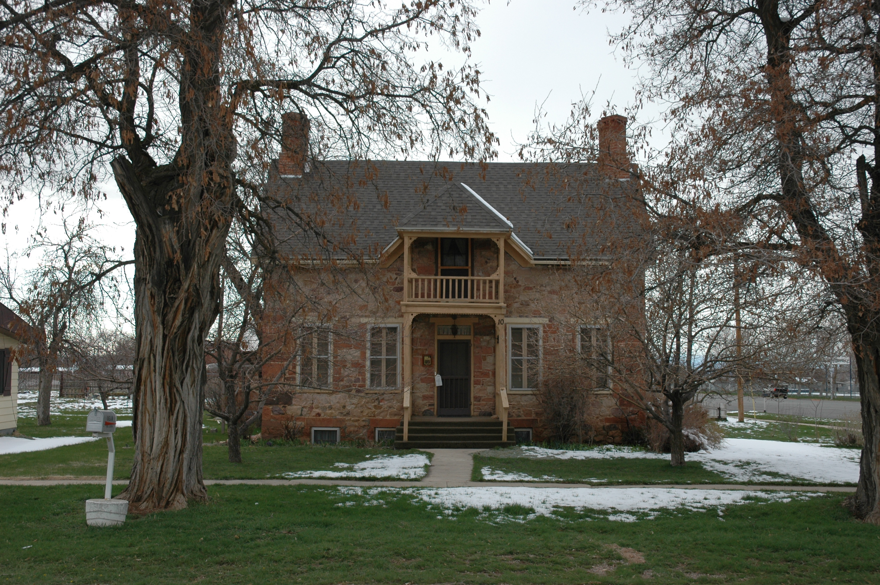 The Edward and Elizabeth Partridge House, a historic home in Fillmore, Utah, United States.